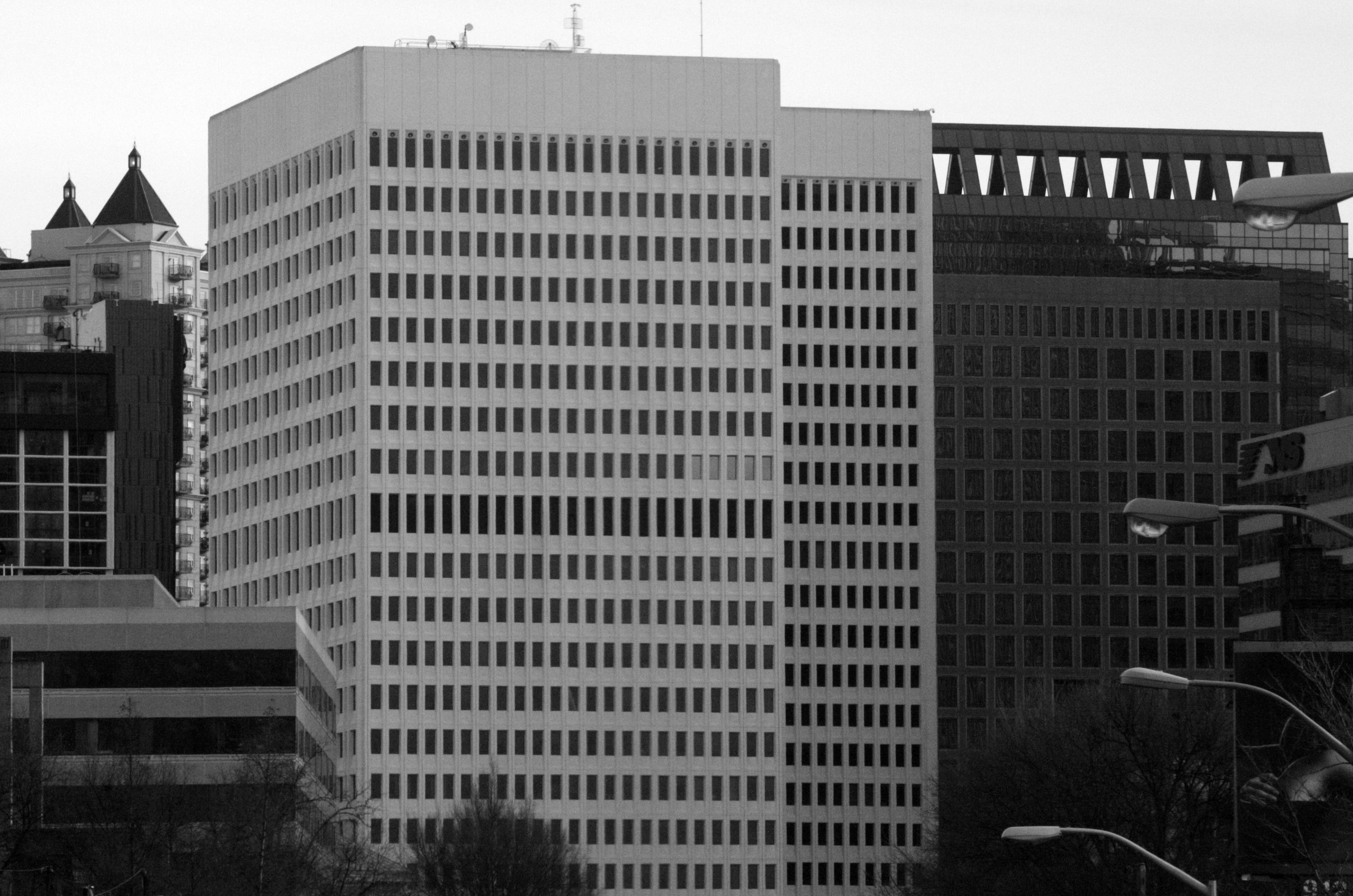 400 Colony Square at Colony Square, Atlanta